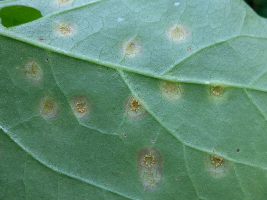 Puccinia convolvuli. Found in Rīga town, Latvia